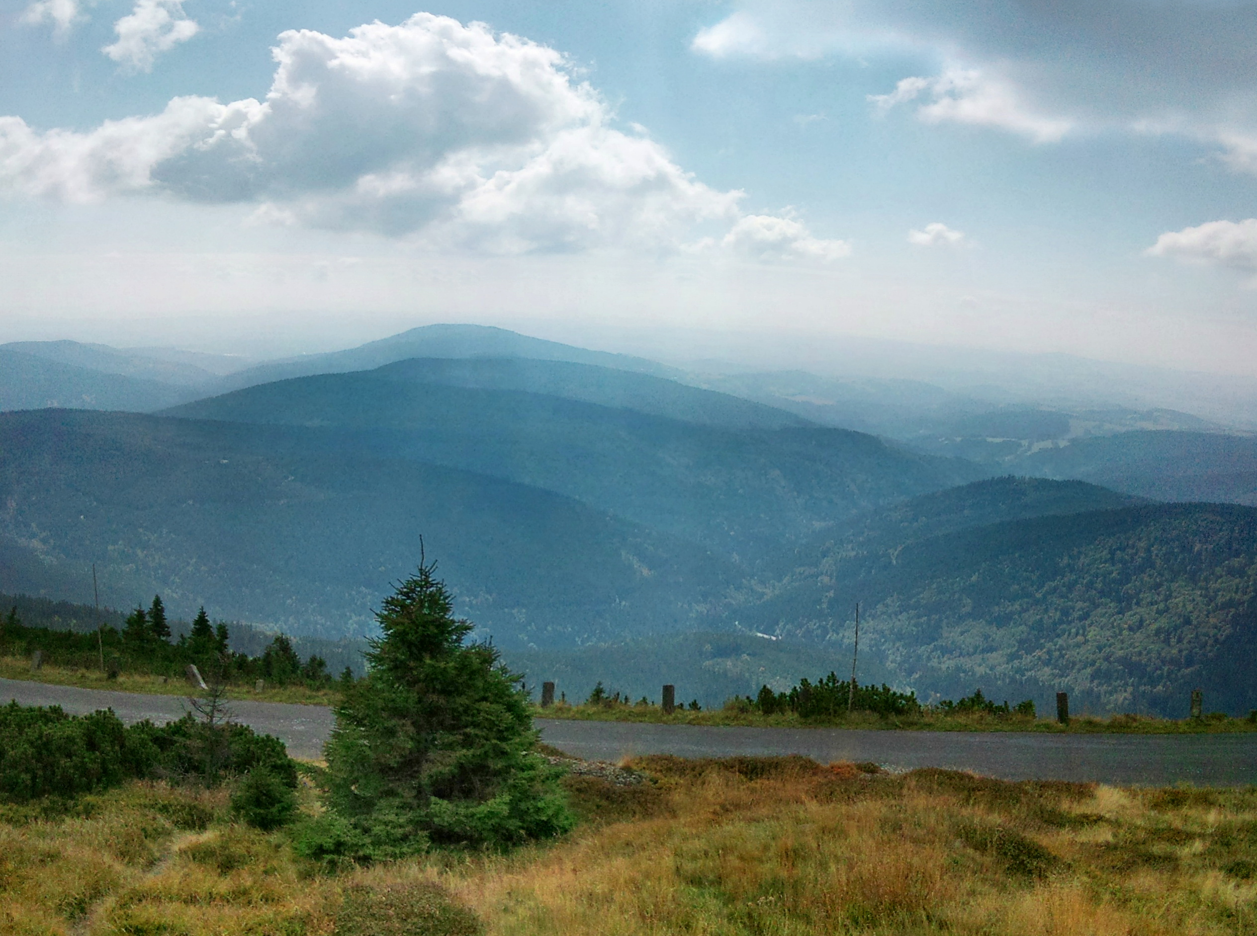 Žalský hřbet in the Krkonoše Mountains